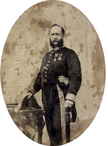 Major-General Sir Harry St. George Ord (4 August 1819 – 20 August 1885) when he was the Governor of Straits Settlements from 16 March 1867 to 4 November 1873.